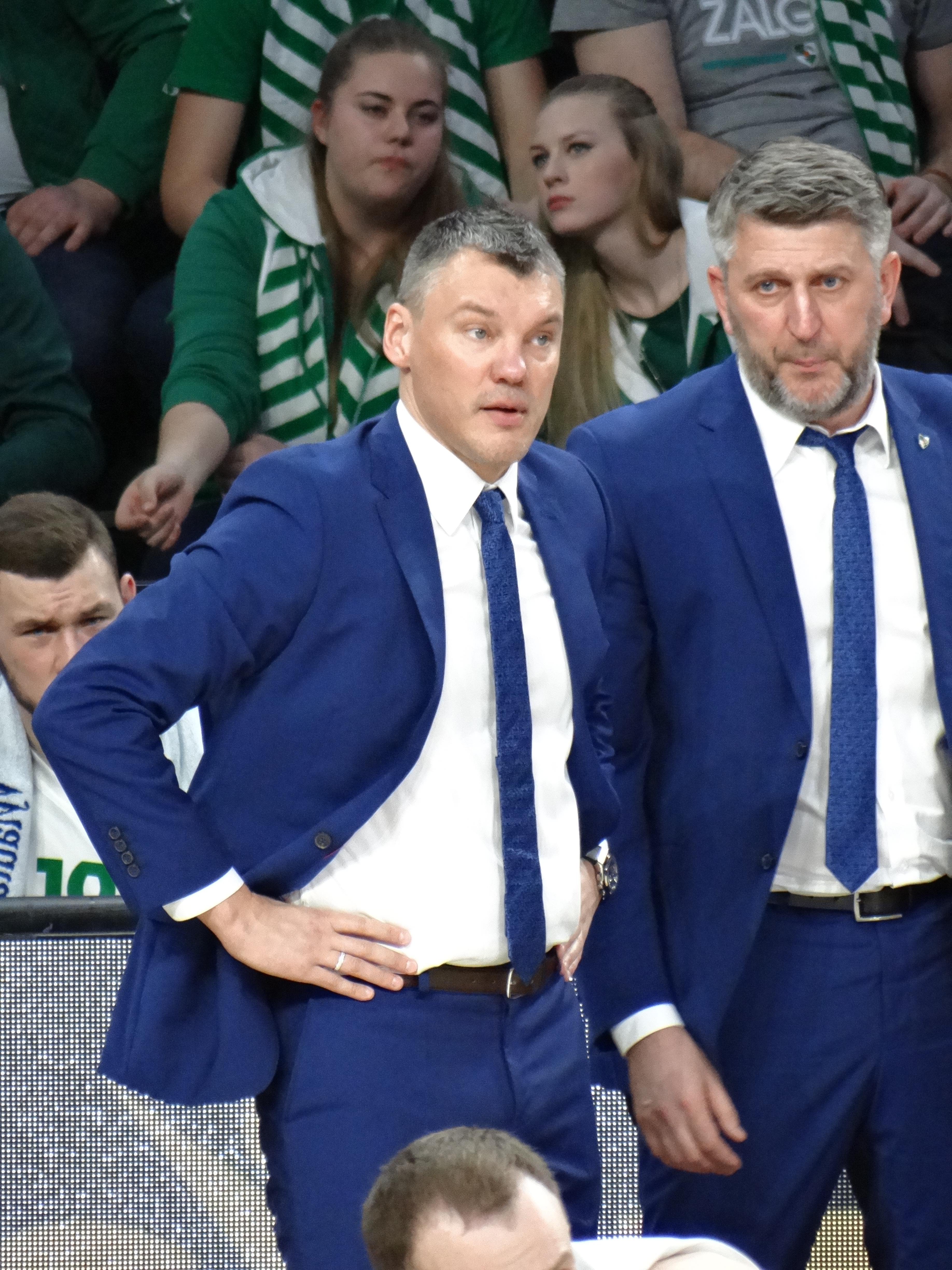 Šarūnas Jasikevičius BC Žalgiris EuroLeague 20180223